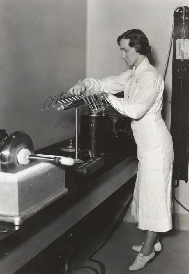 Dr. Margaret Pittman, U.S. National Institute of Health, demonstrates the Flosdorf-Mudd lyophile process which dries cultures of meningitis germs. They can be kept several years. At the U.S. National Institute of Health, 25th and E Streets NW, Washington, DC.